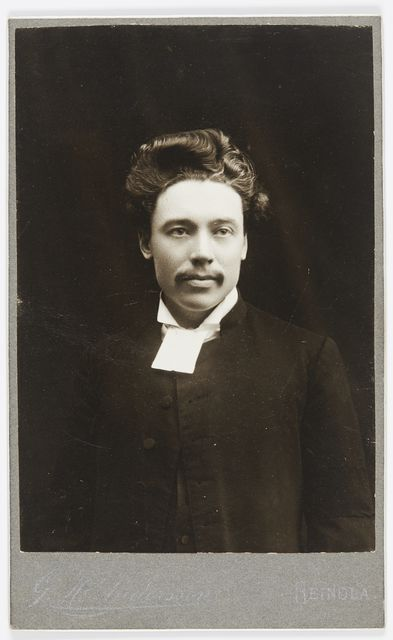 Photograph of the Finnish priest and politician Bror Hannes Päivänsalo (1875–1933).